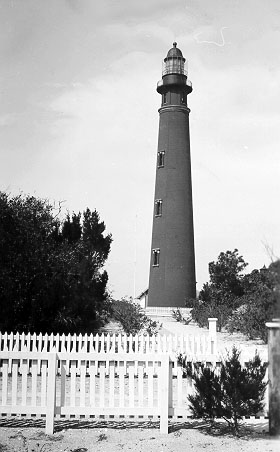 Downloaded from U.S. Coast Guard Historic Light Station Information & Photography - Florida no photo number/caption/date; photographer unknown